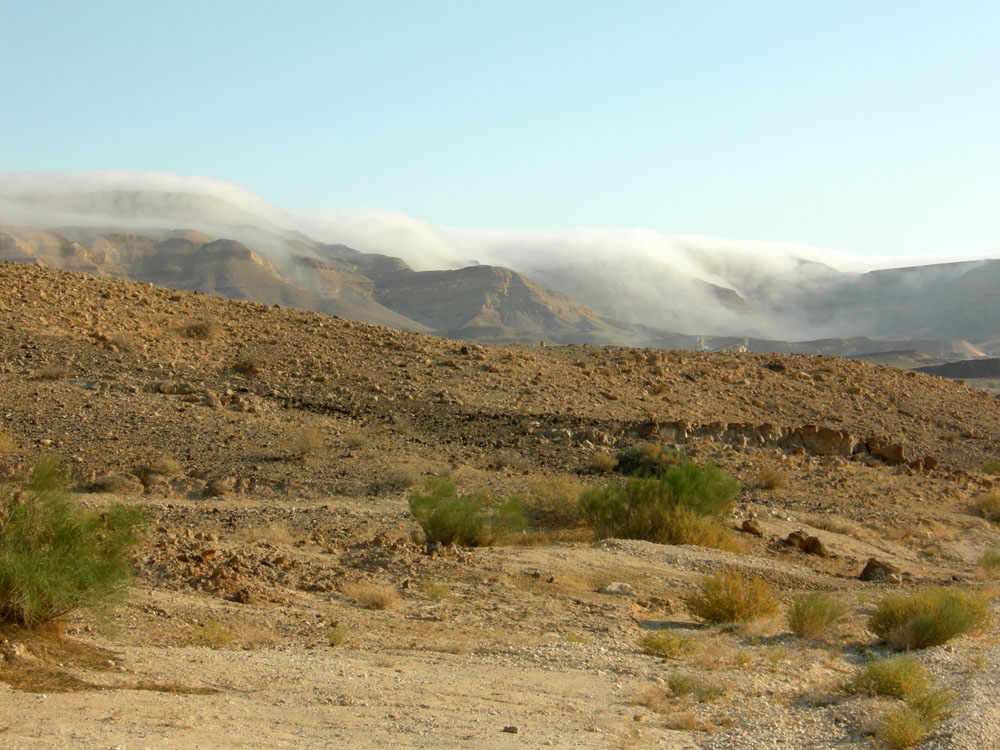 Mist flowing into Makhtesh Gadol, Negev, Israel.